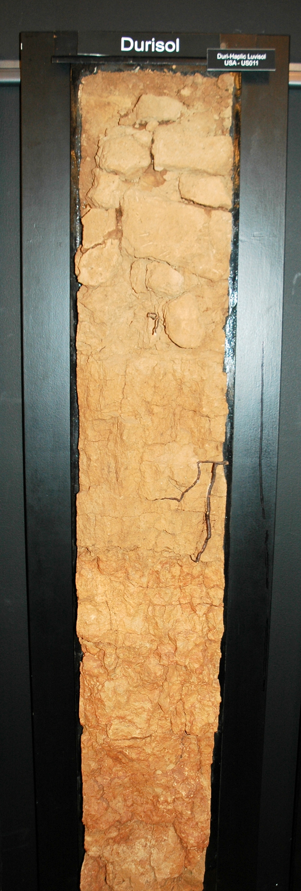 Soil profile of a Durisol